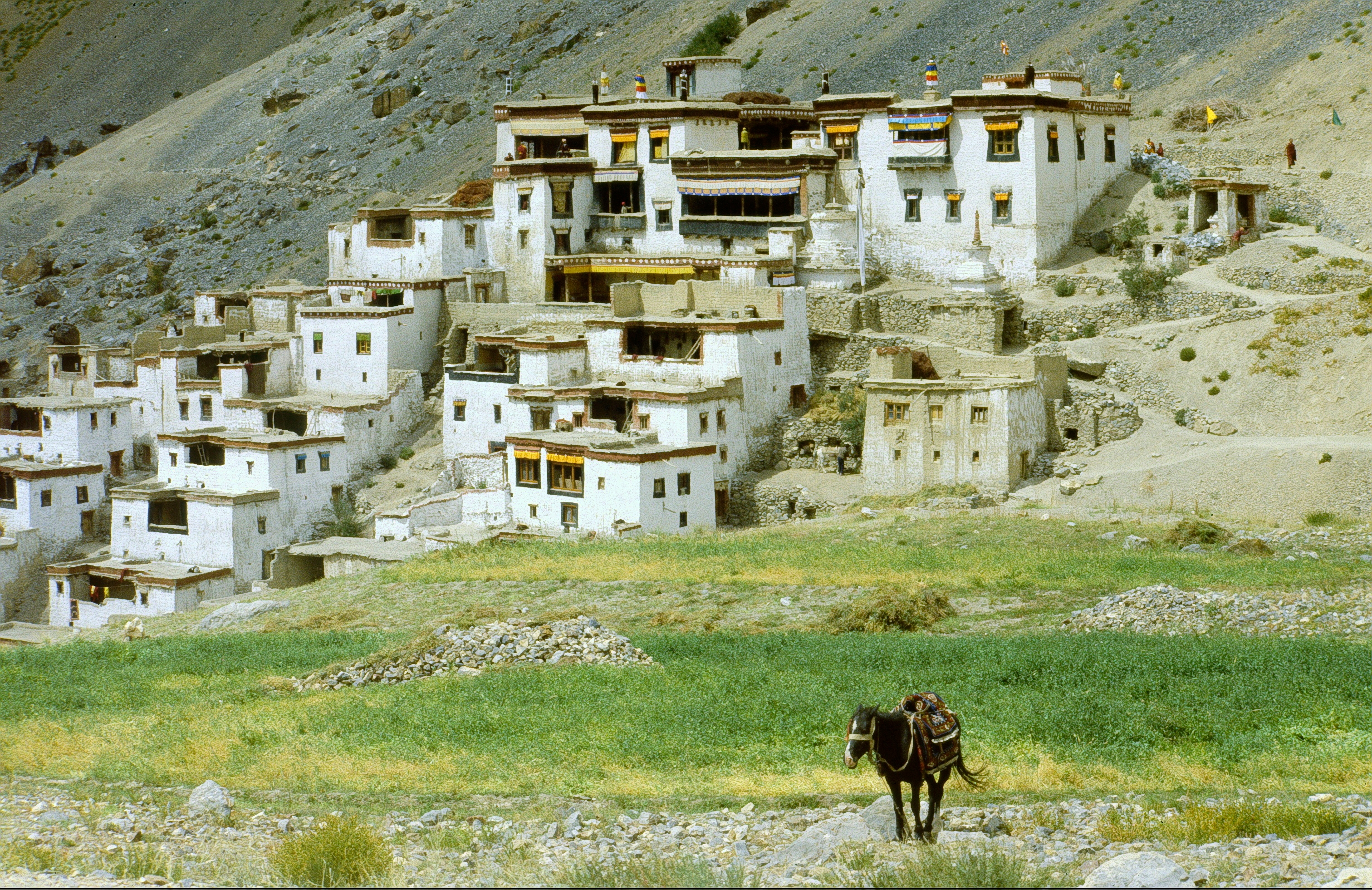 Lingshed gompa, Zanskar/Ladakh.